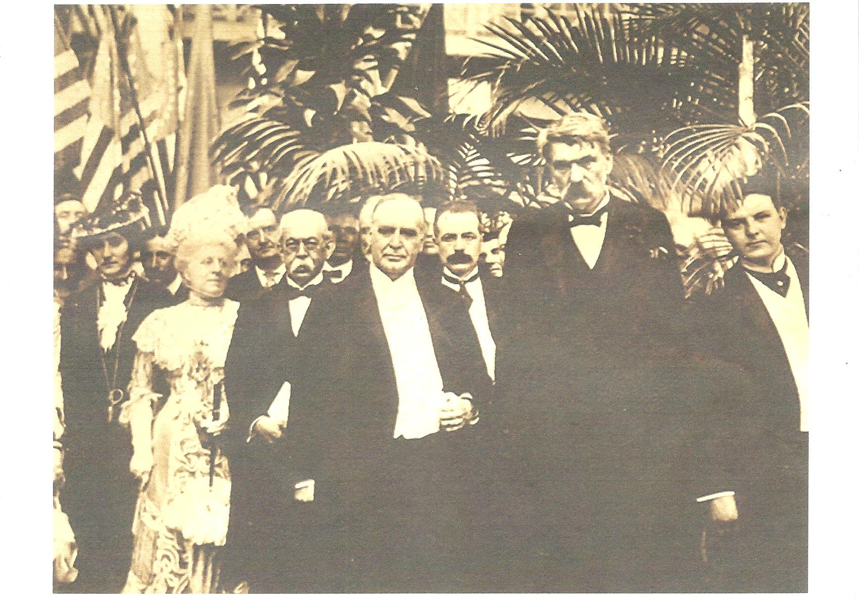 The "last posed photograph" of President McKinley, in the Government Building on 5 September 1901. Left to right: Mrs. John Miller Horton, Chairwoman of the Entertainment Committee of the Woman's Board of Managers; John G. Milburn; Senor Asperoz, the Mexican Ambassador; the President; George B. Courtelyou, the President's secretary; Col. John H. Bingham of the Government Board. Source: From the Johnston Collection in the Prints and Photographs Division of the Library of Congress [LOT 11735].